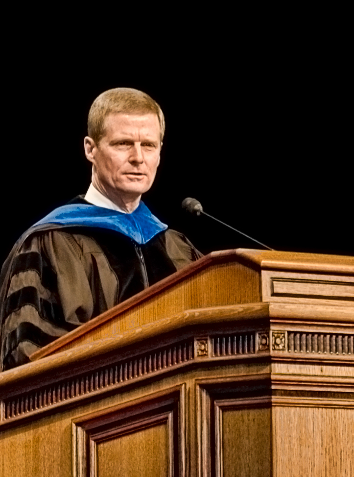 Elder David A. Bednar speaking at the 2007 graduation ceremony of the Marriott School of Management